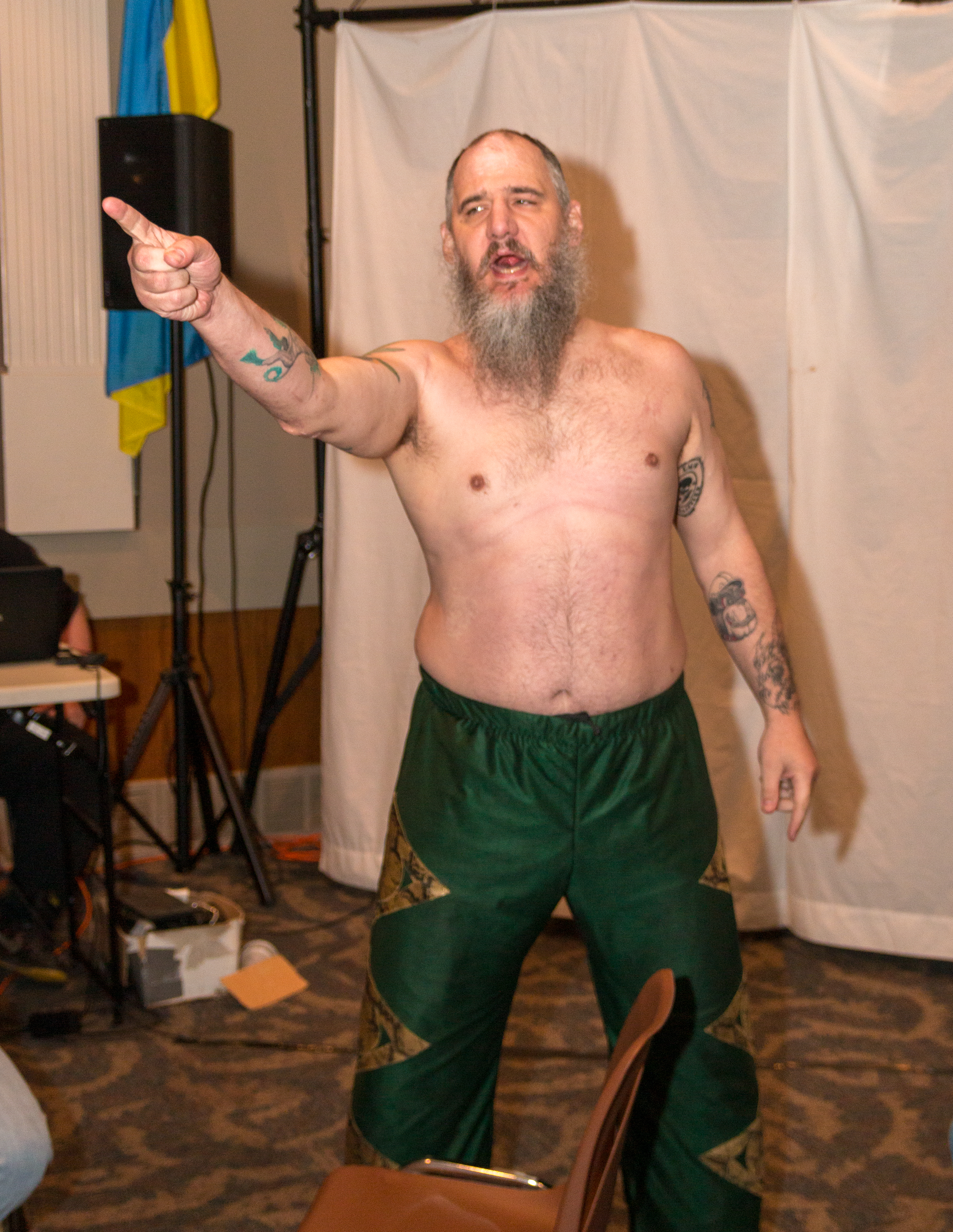 Necro Butcher making his entrance at an independent show in London, ON